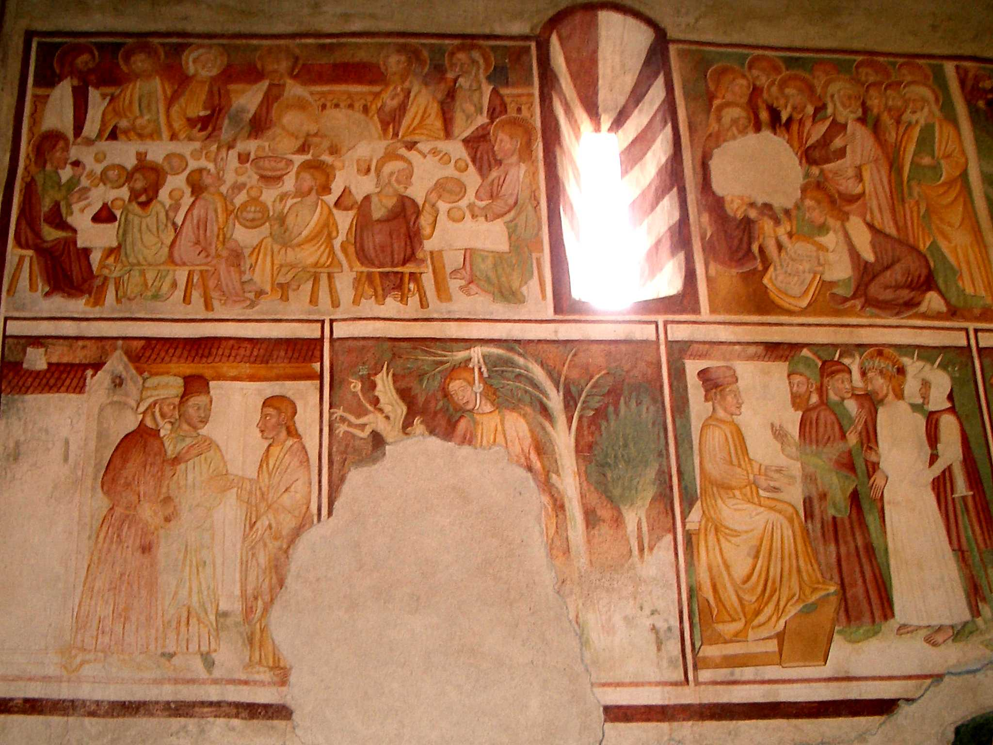 "Maestro di Postua" (attributed), Scenes of the Passion, fresco, second half of XV centuty, Paruzzaro, San Marcello Church